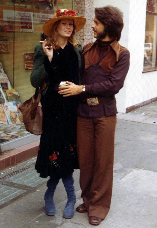 Efva Attling & Lars Jacob, as released by image creator Lars Jacob ProdPlace: 127 Kings Road, London, England, U.K.